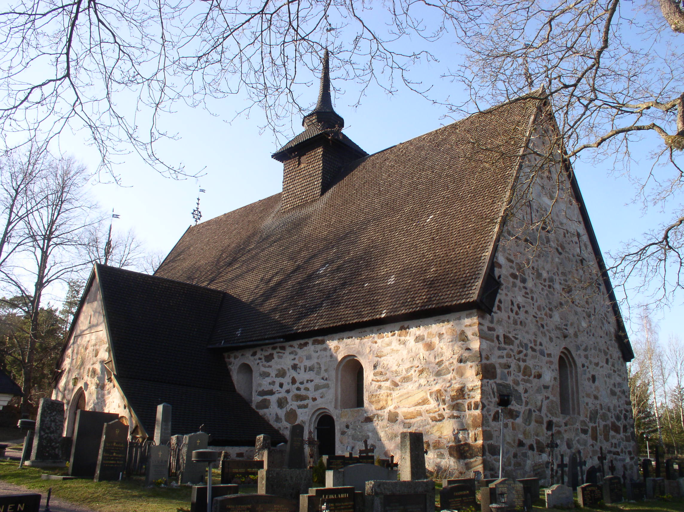 Rymättylä church in Rymättylä (Naantali), Finland.